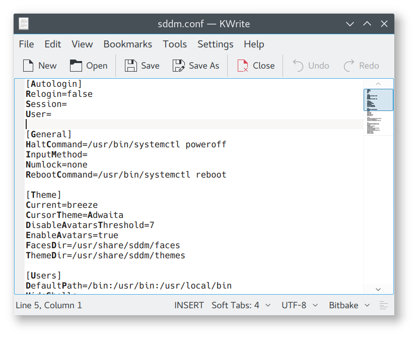 KWrite 16.12 running under Plasma 5 and editing sddm.conf